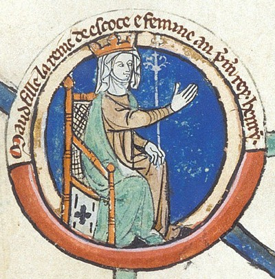 Matilda of Scotland